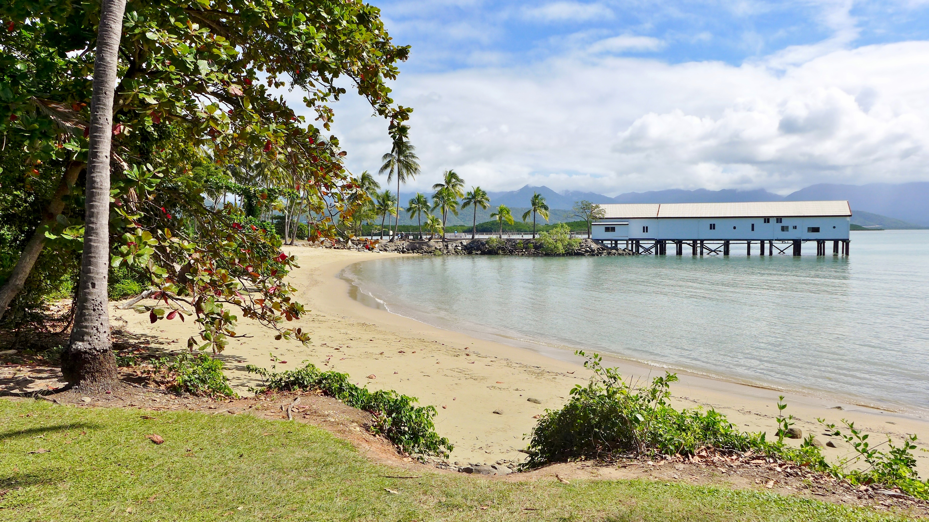 View of the waterfront in Port Douglas, Far North Queensland, Australia. At centre right is the old Sugar Wharf.